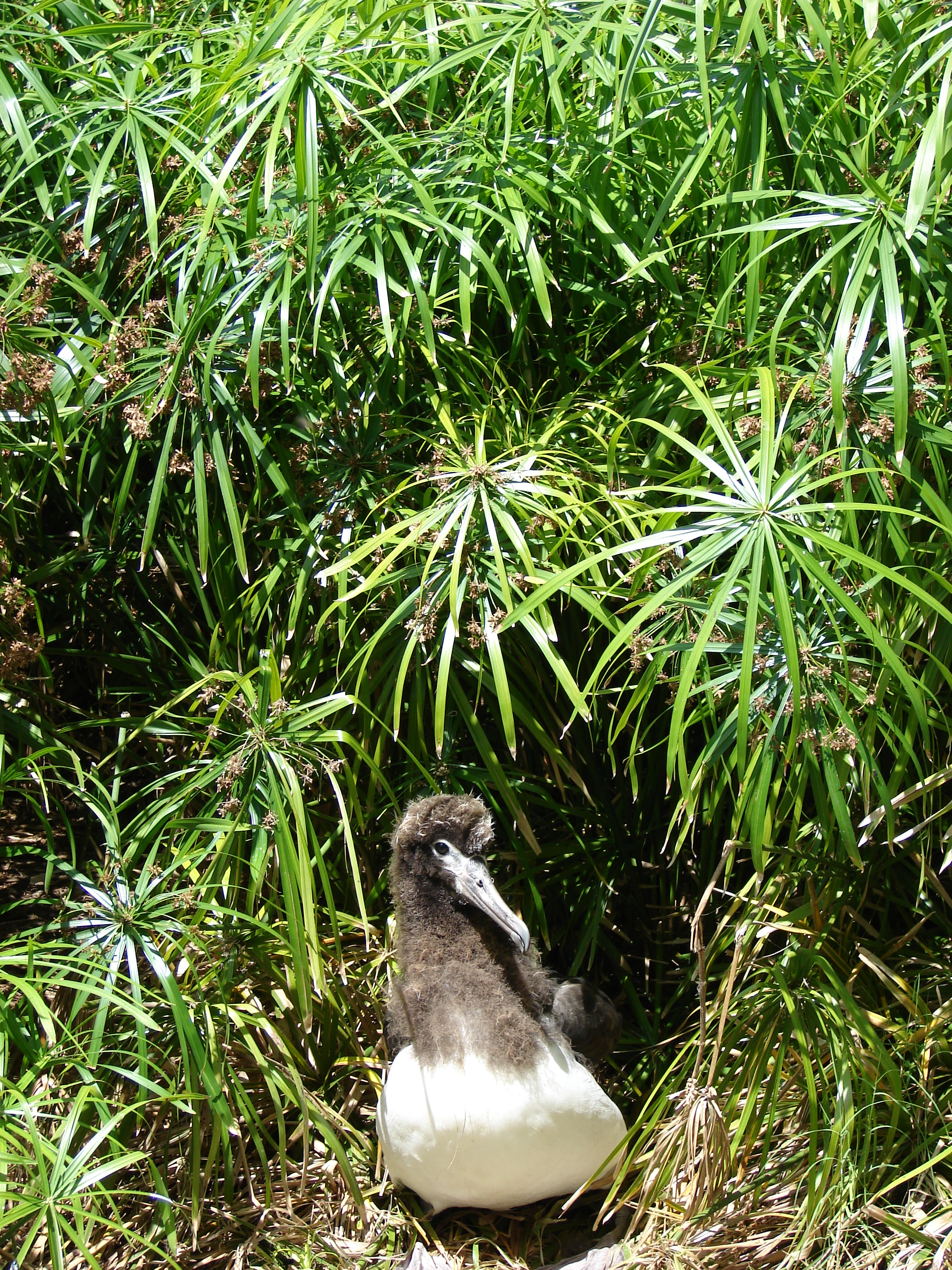 Cyperus involucratus (habit with Laysan albatross). Location: Midway Atoll, DDT wetland Sand Island